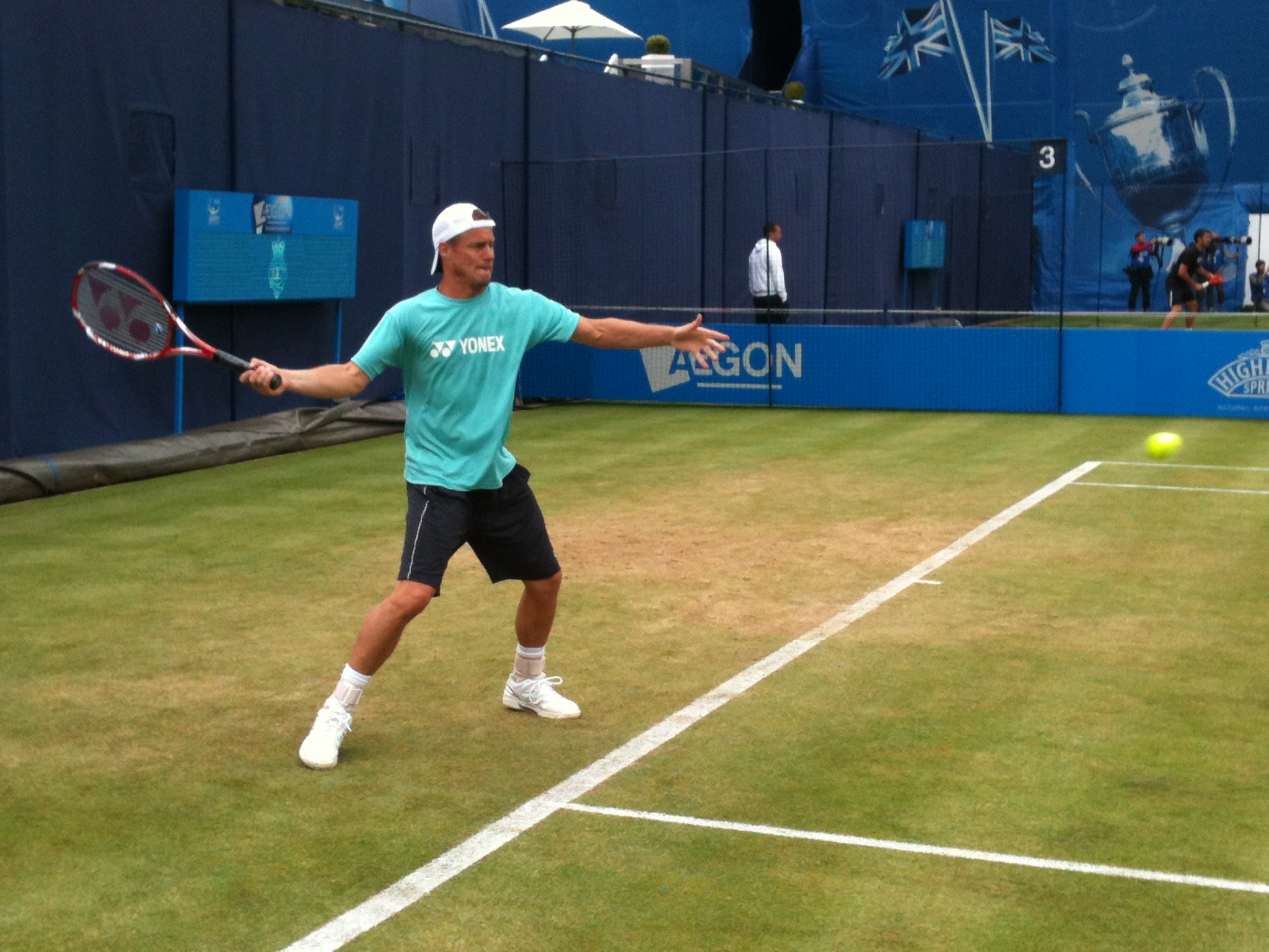 Lleyton Hewitt practicing at the Queen's Club in 2013 ahead of his first round match against Michael Russell.